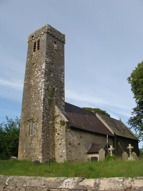 Hodgeston church This church is redundant and currently in the care of the charity Friends of Friendless Churches.